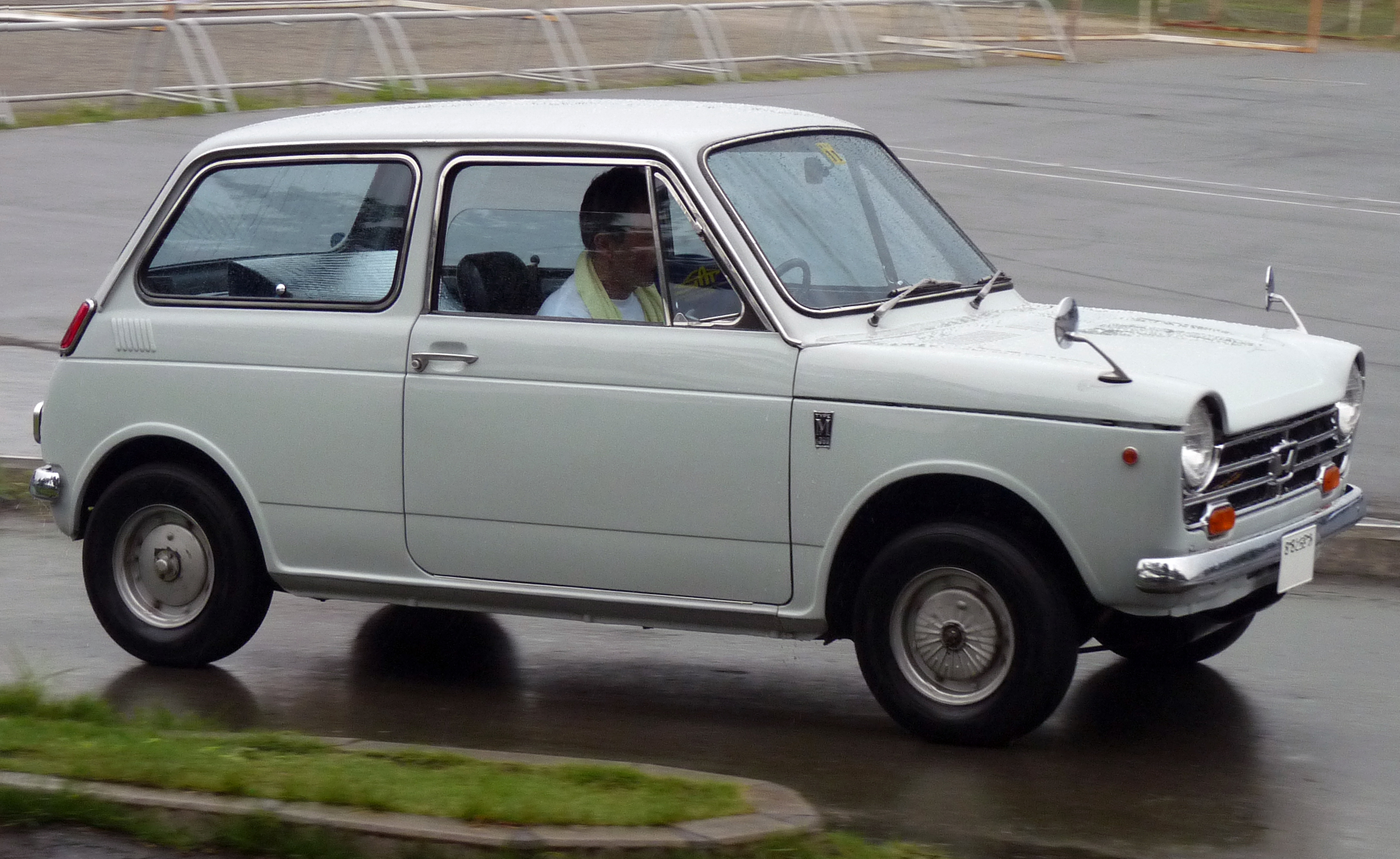 1967-1968 Honda N360 Type M at Saitama-Jidosya-daigaku classic car meet.